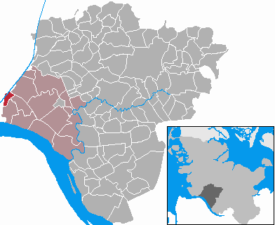 This map shows the area of the municipality Kudensee in the Kreis (district) Steinburg, Schleswig-Holstein, Germany.